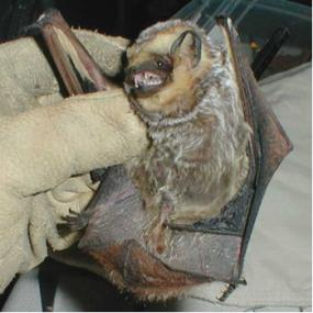 Hoary Bat (Lasiurus cinereus)